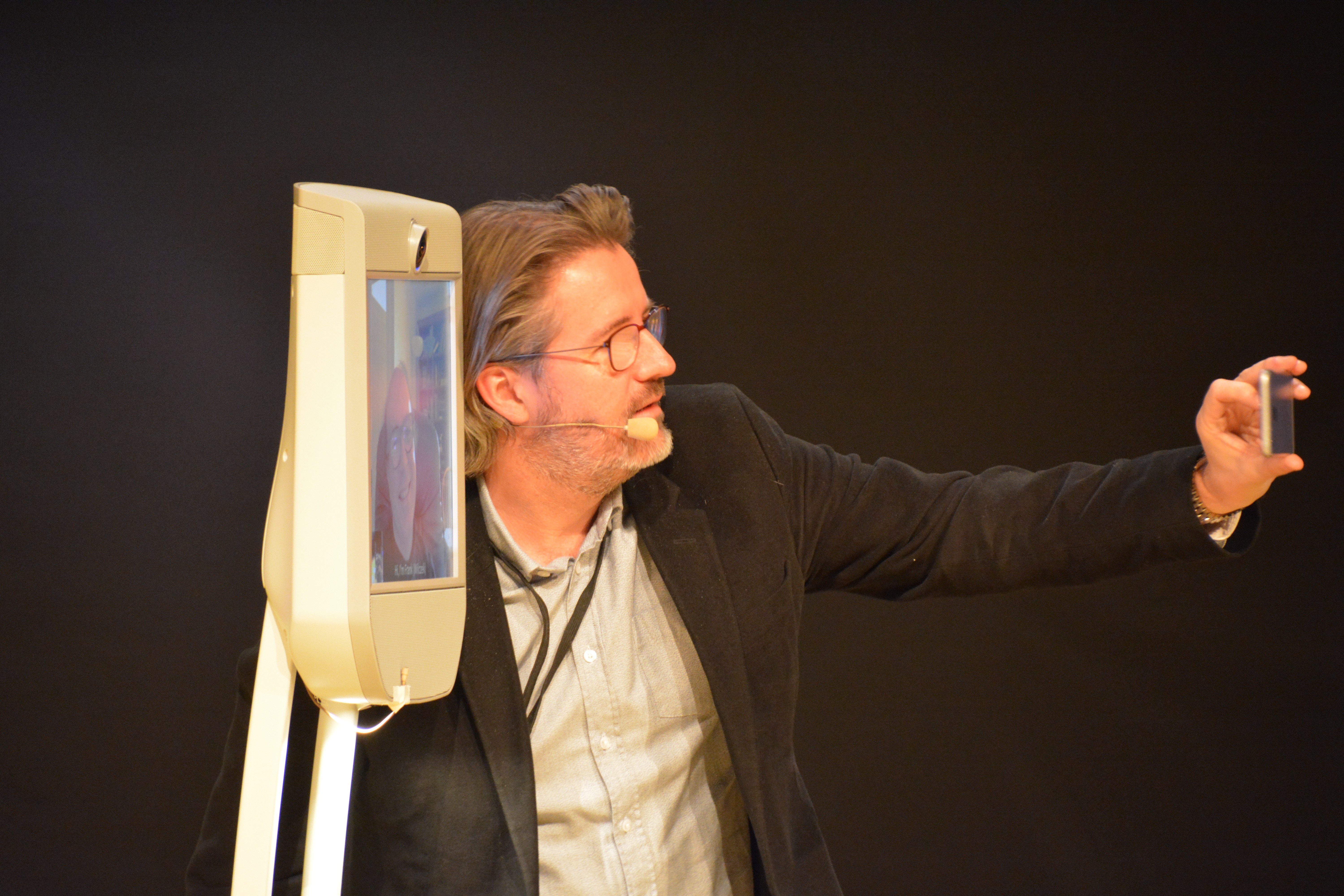 Olafur Eliasson takes a selfie with Frank Wilczek on distance